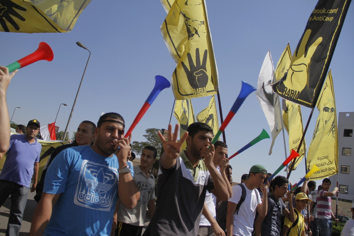 Original description: "Anti-coup protesters in Nasr City, Cairo, Oct. 11, 2013. (Hamada Elrasam for VOA)"